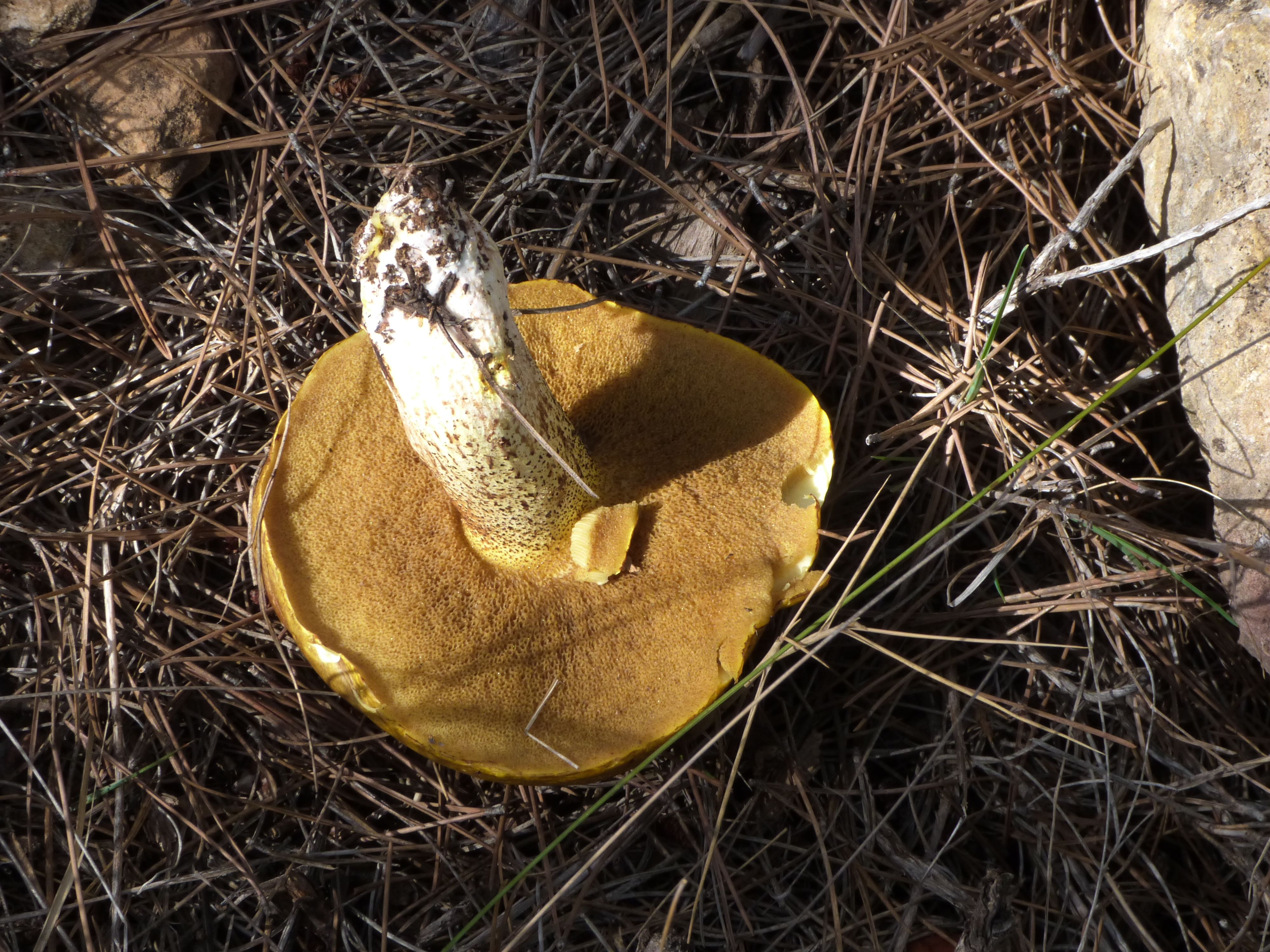 Suillus mediterraneensis.